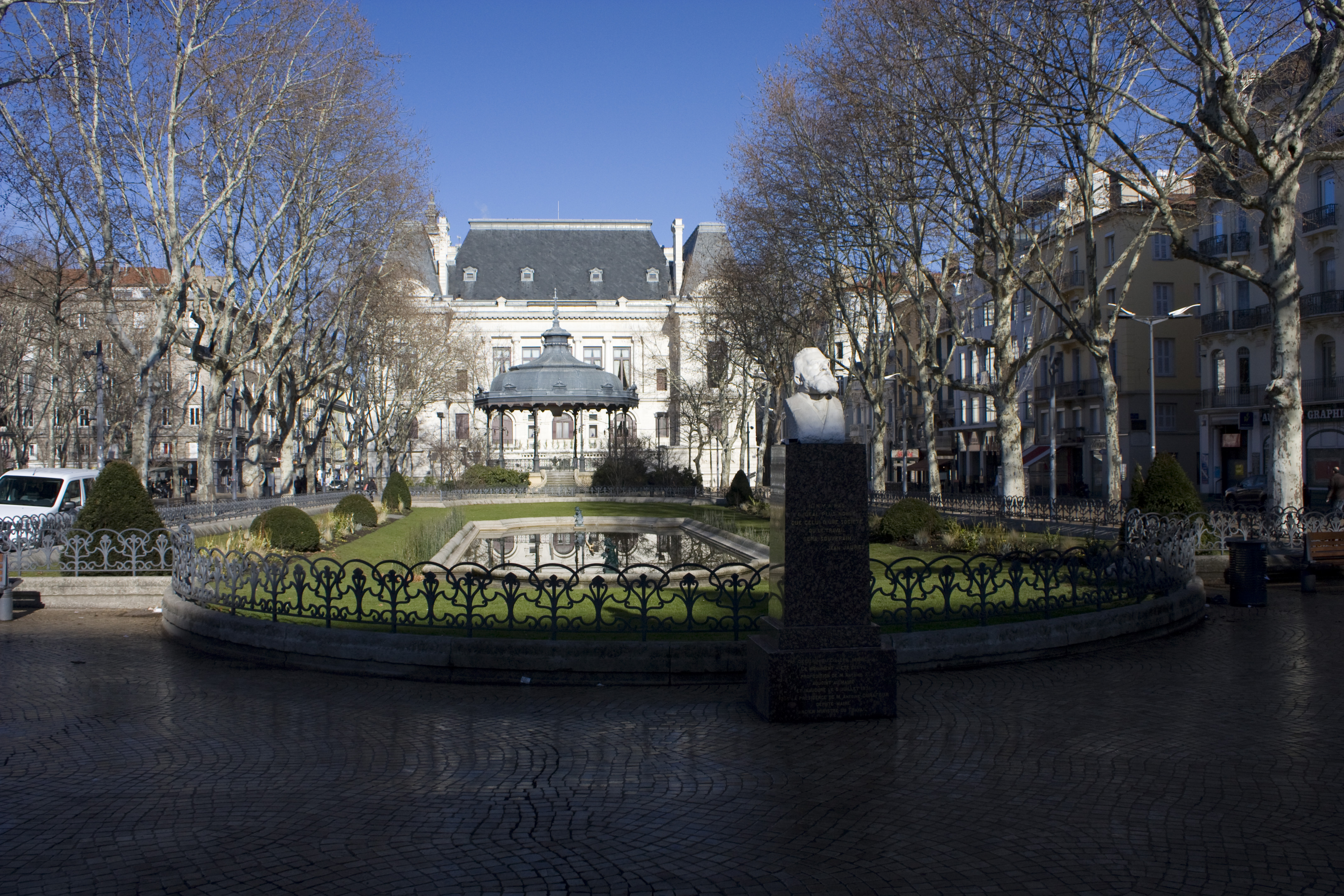 Perspective of the Jean Jaurès square up to the Préfecture.